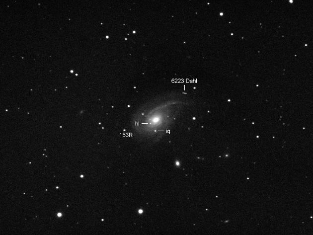 Two supernova (SN 2003hl & SN 2003iq) in NGC 772 galaxy and minor planet 6223 Dahl